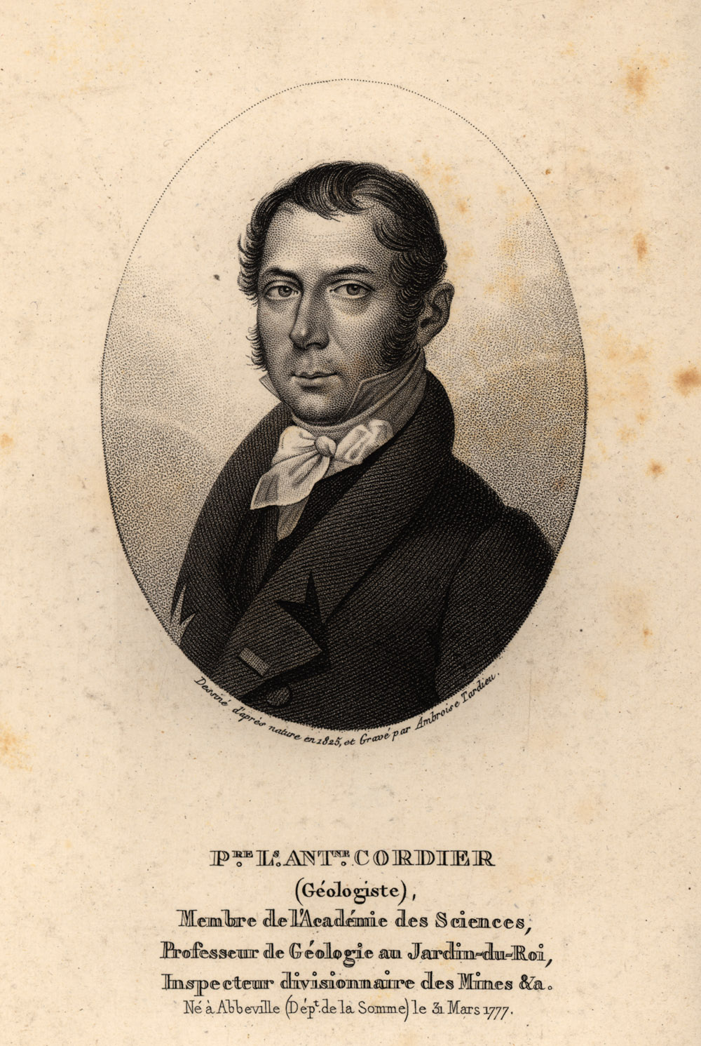 Portrait of the geologist Pierre Louis Antoine Cordier (1777–1861) by Ambroise Tardieu (1788–1841). From the Smithsonian Digital Collection.